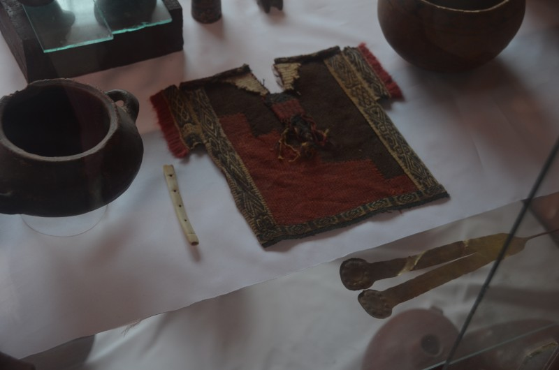 Miniature unku discovered at Corral Redondo, Chorunga Valley, the site shows Wari and Inca ocupations, many objects of both culture were discovered at the site.